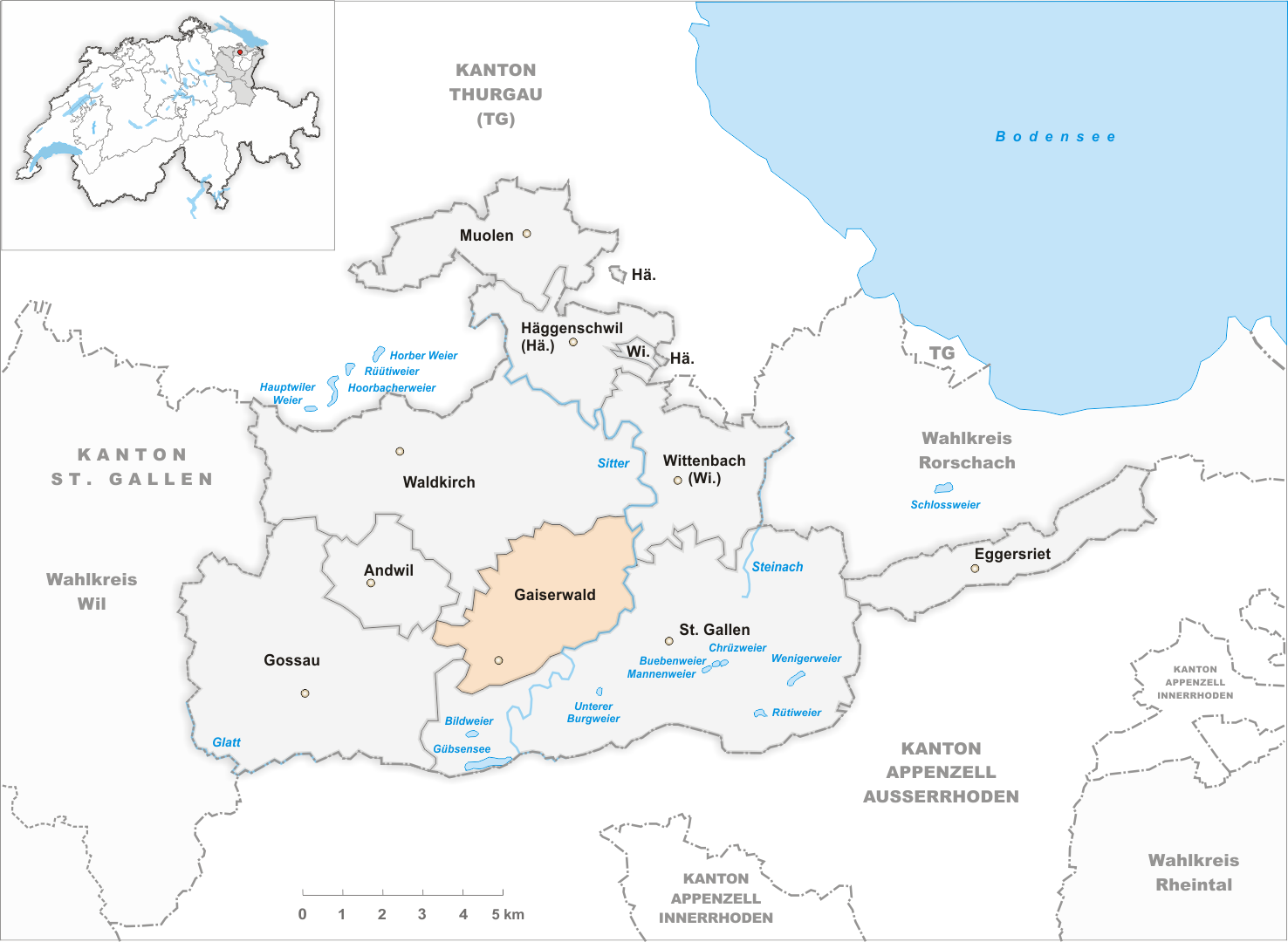 Municipality Gaiserwald